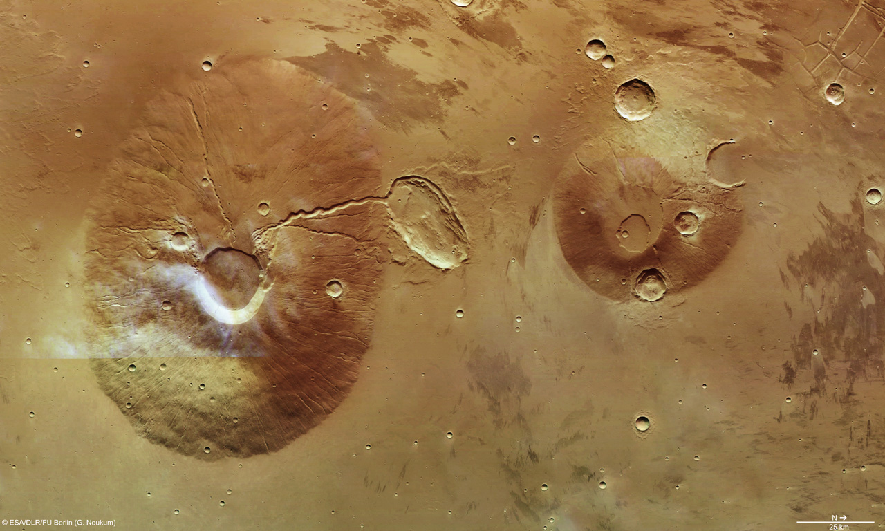 The volcanoes Ceraunius Tholus (left) and Uranius Tholus (right) on Mars imaged by the HRSC instrument aboard Mars Express.